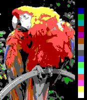 Sample image of simulated PC EGA 16-color (CGA) screen